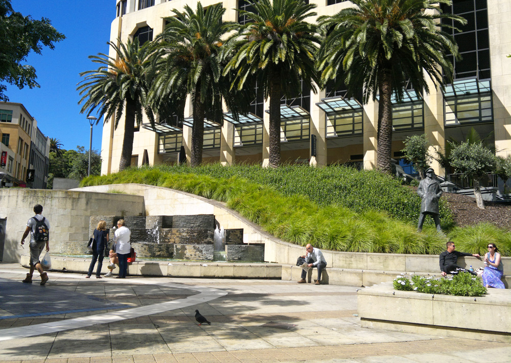 Freyburg Square in downtown Auckland, New Zealand